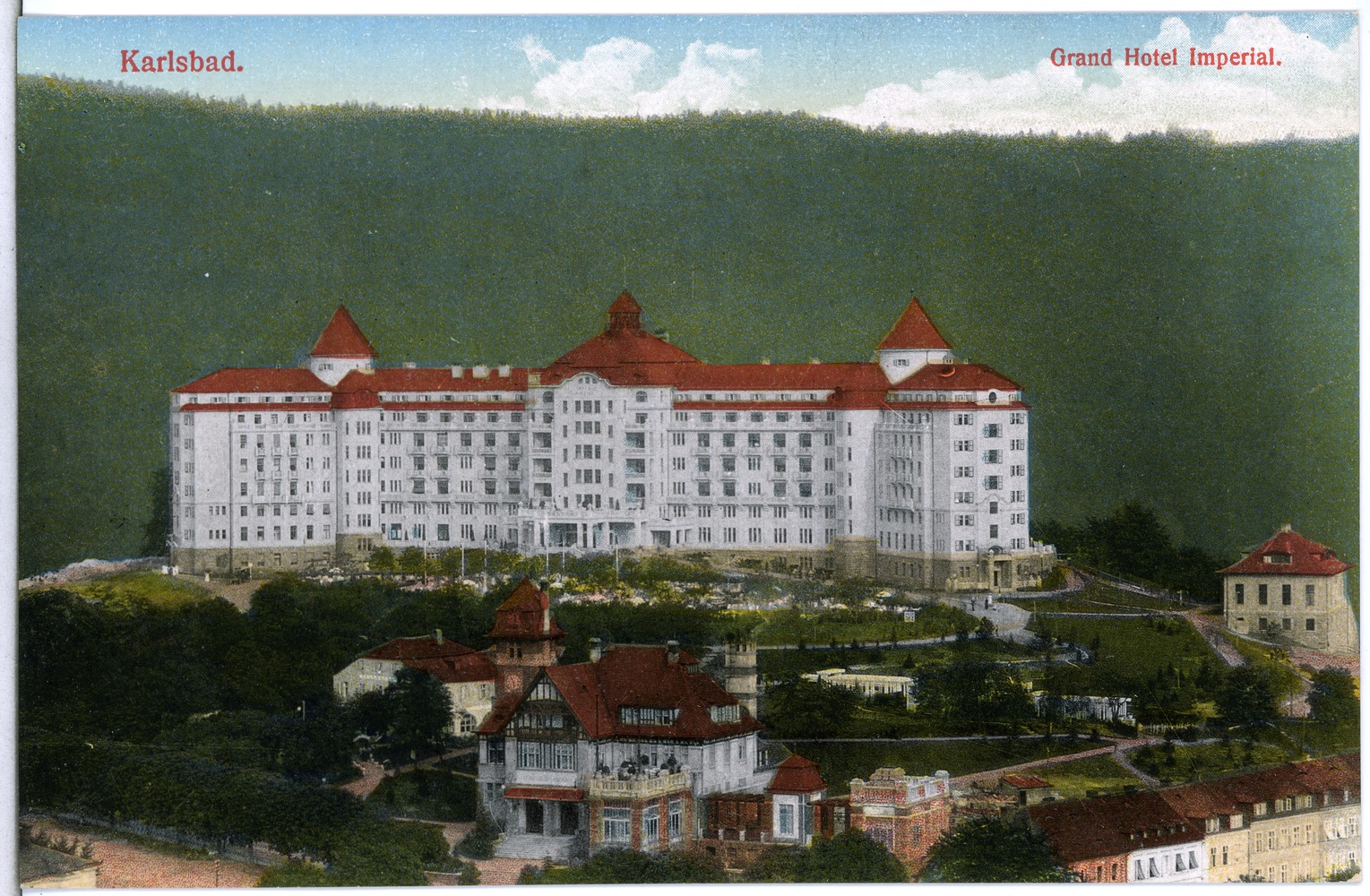 This postcard is from publisher Brück & Sohn in Meißen ( This postcard has a unique number 15044 and is available in a higher resolution at the publisher. This images was uploaded in a cooperation project between Wikipedians and the publisher.